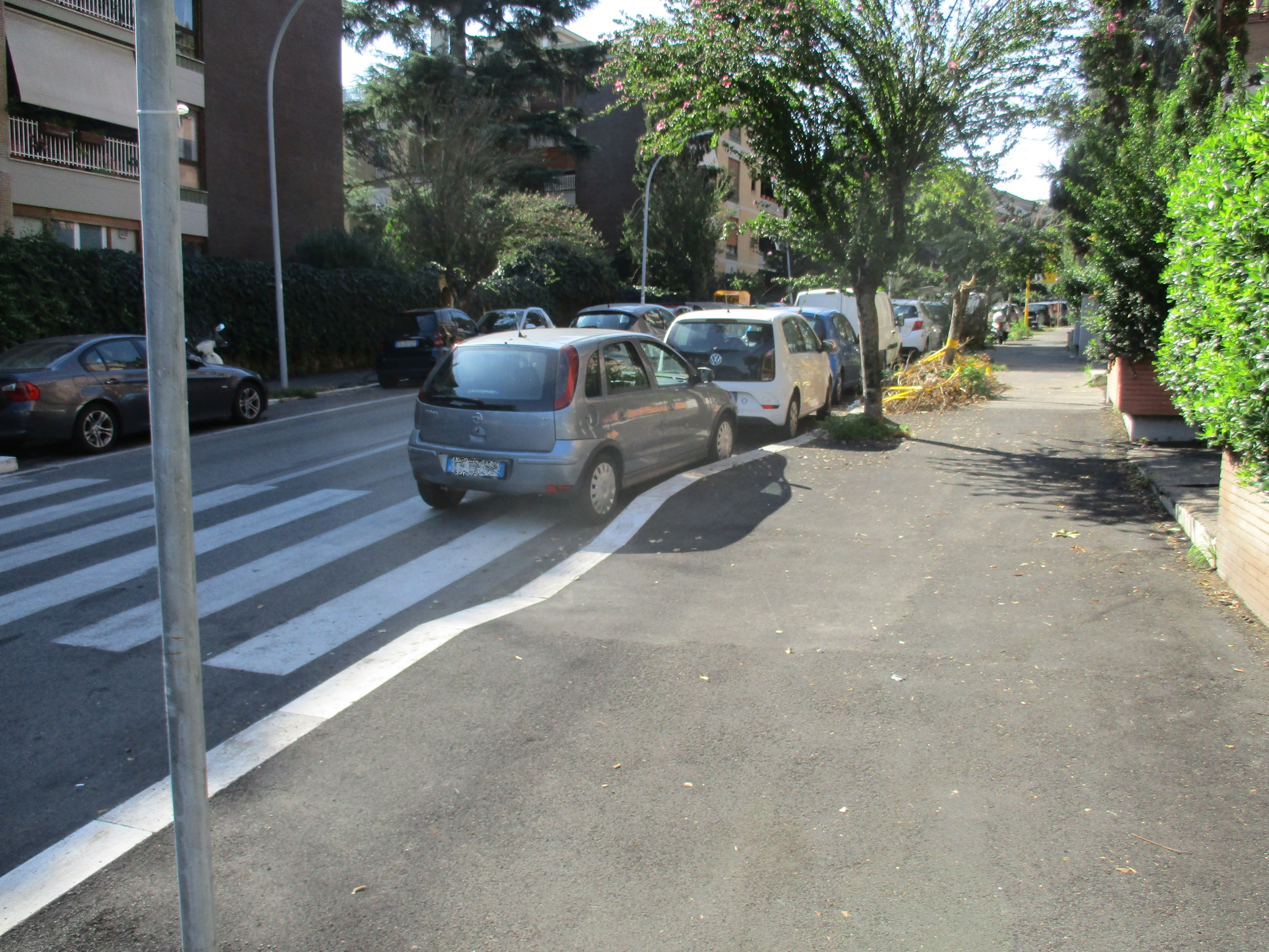 Via Mario Fani in Rome; this picture is taken exactly where the kidnappers where standing, waiting for Aldo Moro on 16 March 1978.